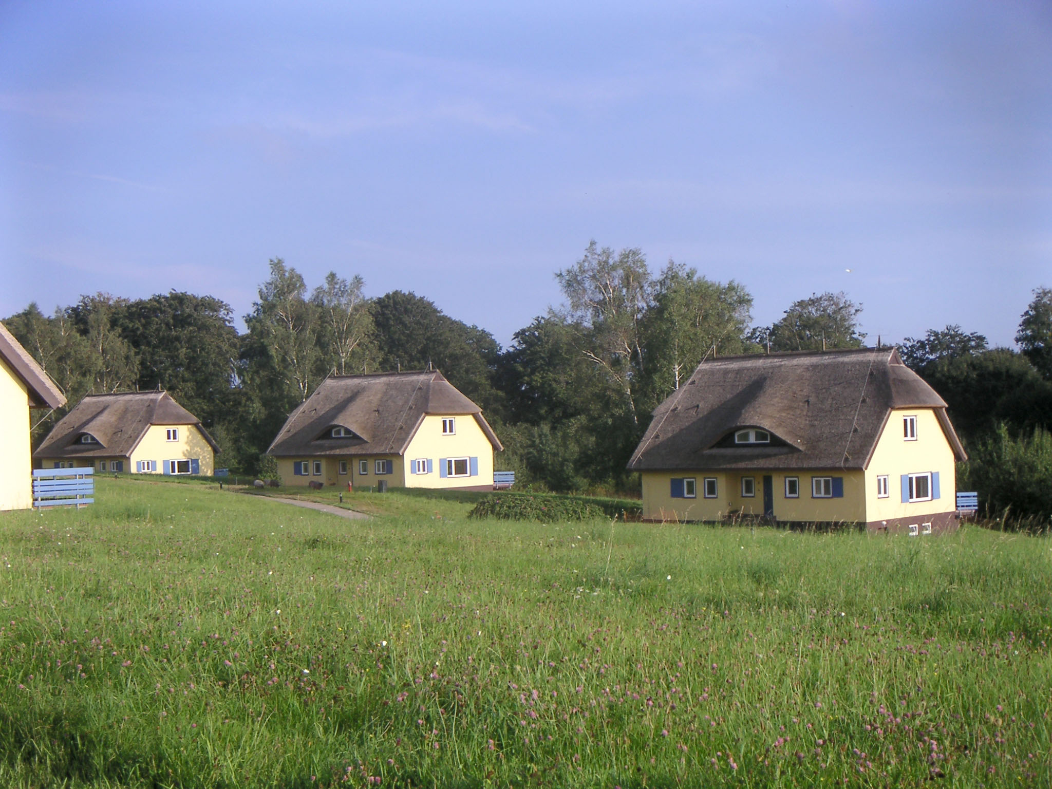 Guesthouses on Vilm